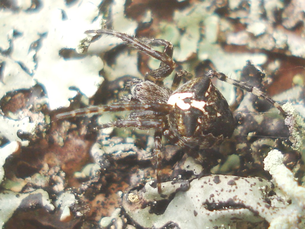 Araneus angulatus